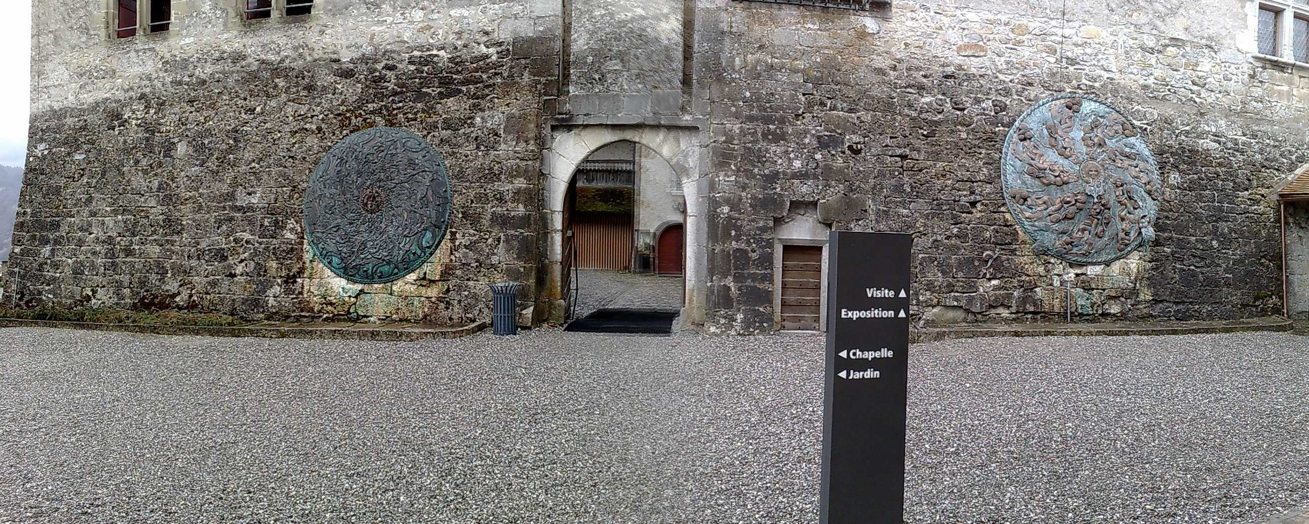 Main entrance of the Castle of Gruyères in Switzerland (West Side). The left and right bronze shields, respectivly representing Mars (1997) and Venus (1999), were created by Patrick Woodroffe. Over the entrance the openings of the ancient Drawbridge are still visible, the front yard was originally a moat.